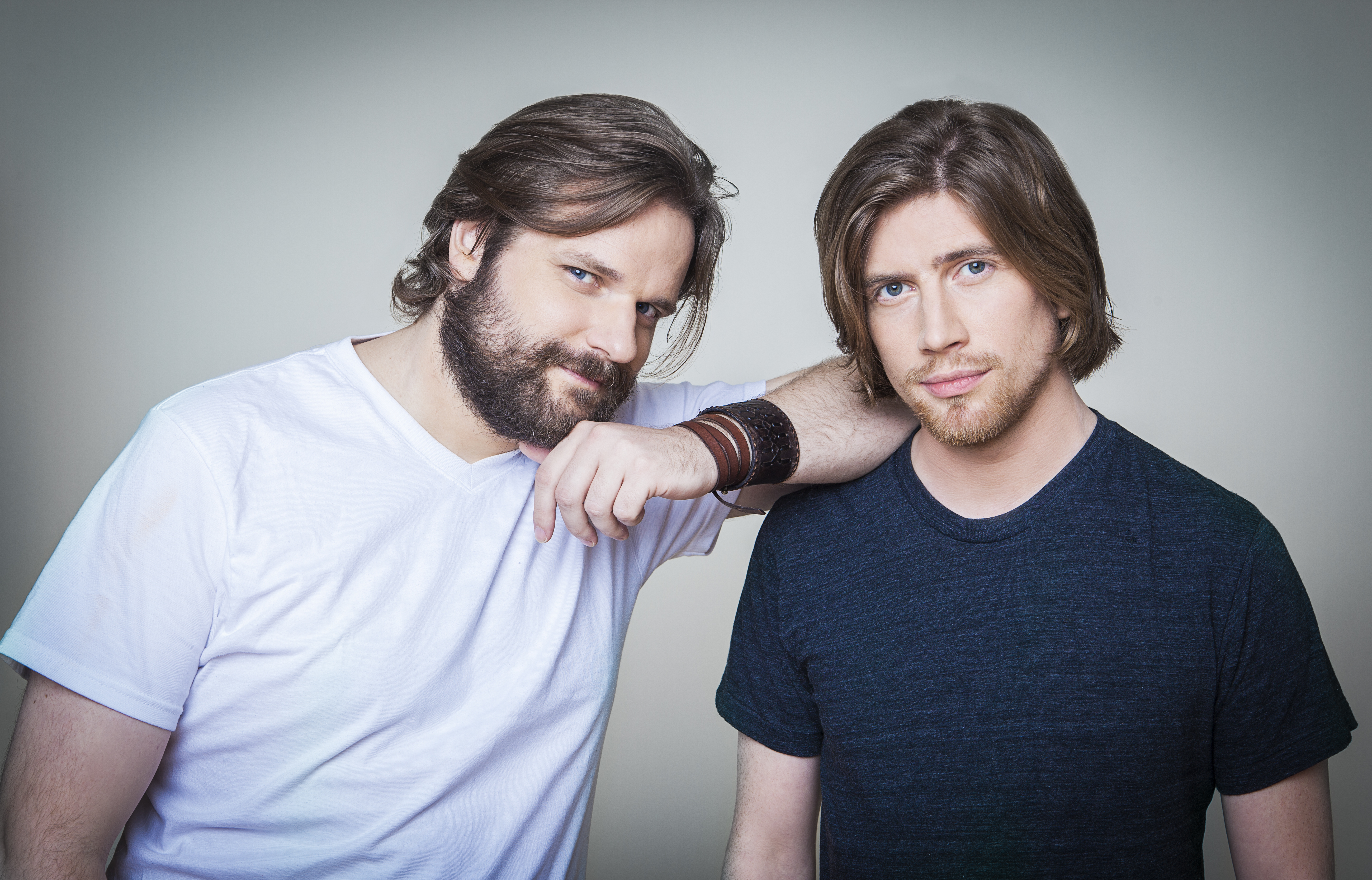 Gronkh - Sarazar